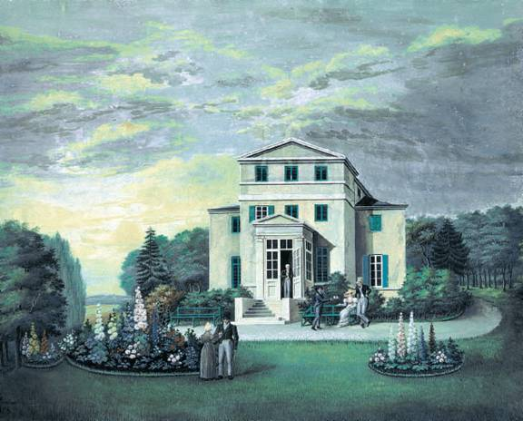 Hellerupgaard Mansion in Hellerup, Denmark. Built 1802 by Joseph-Jacques Ramée (1764-1842), demolished 1954. Gouache by J.F. Bredal in Øregaard Museum. Scan from Gentofte Kulturarvsatlas.